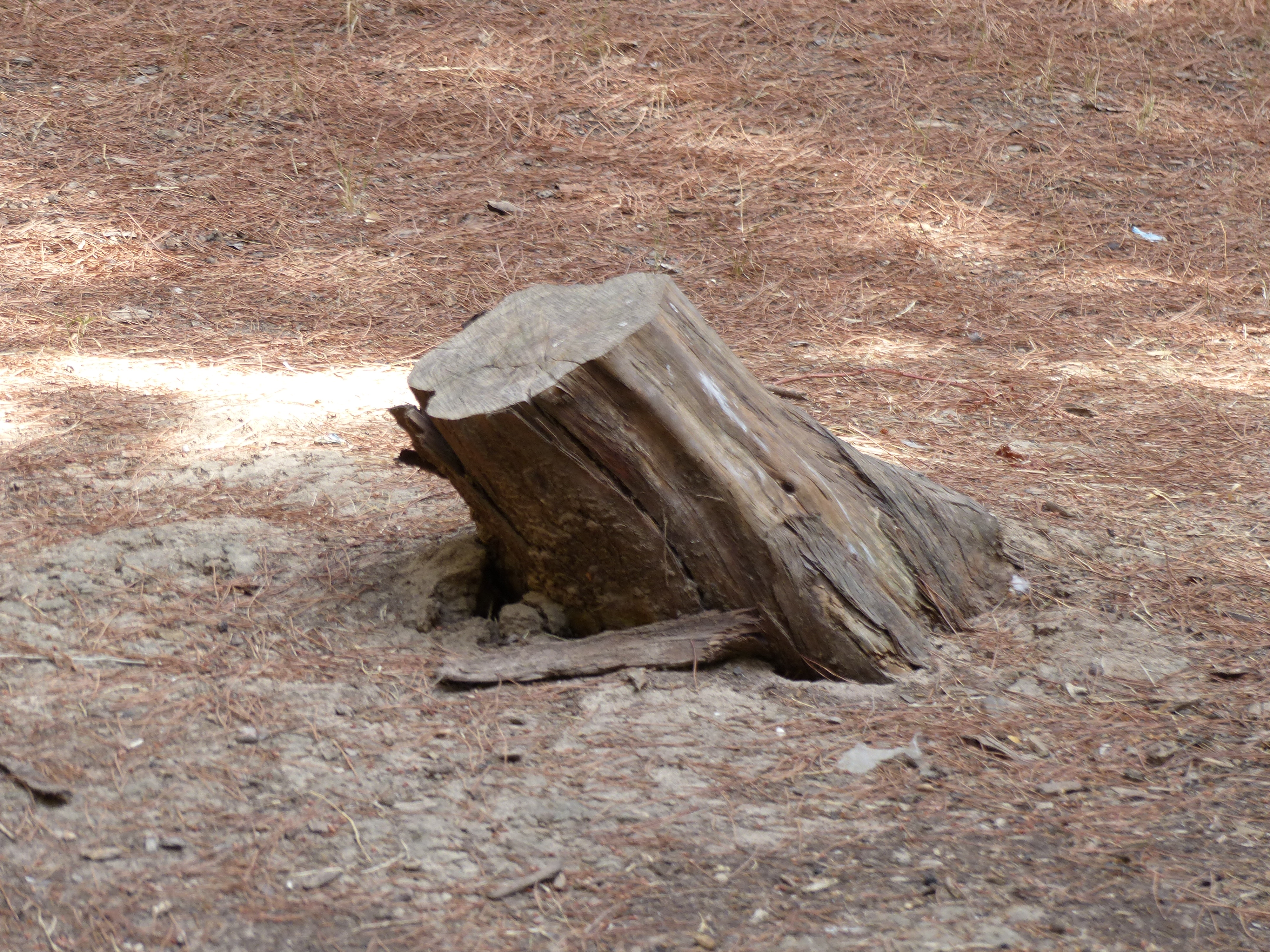 Tree stump, Seville, Spain, 2015